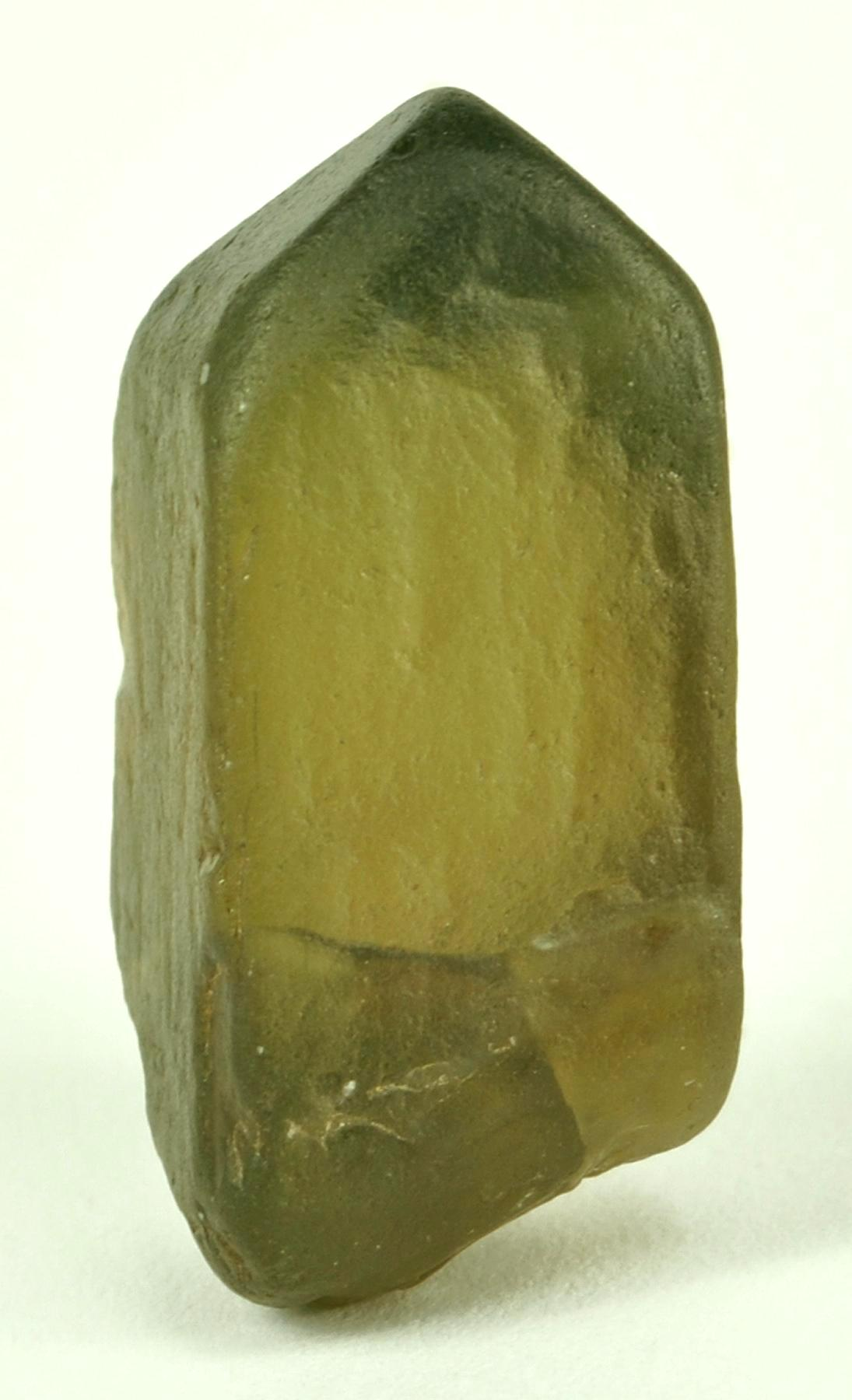 Zircon Locality: Thabeikyin, Mogok, Sagaing District, Mandalay Division, Burma (Myanmar) (Locality at ) Size: miniature, 3.4 x 1.4 x 1.4 cm Zircon This is an approximately 23-gram specimen of TOTALLY GEMMY, transparent, olive-green zircon! It is unusual for both the size, the color, and the translucency, and is a major Mogok gem crystal specimen, thus. The piece has a very sharp and equant termination, though exhibits slight water-worn surfaces characteristic of many gems from the Mogok gem tracts. Old specimen, from finds of the mid to late 1990s,sold by "Burma Bill" Larson from his collection to a collector at that time. I have seen no other comparable. In halogen lights it looks a bit yellowish, and in fluorescents (as shown) a bit more green in color.